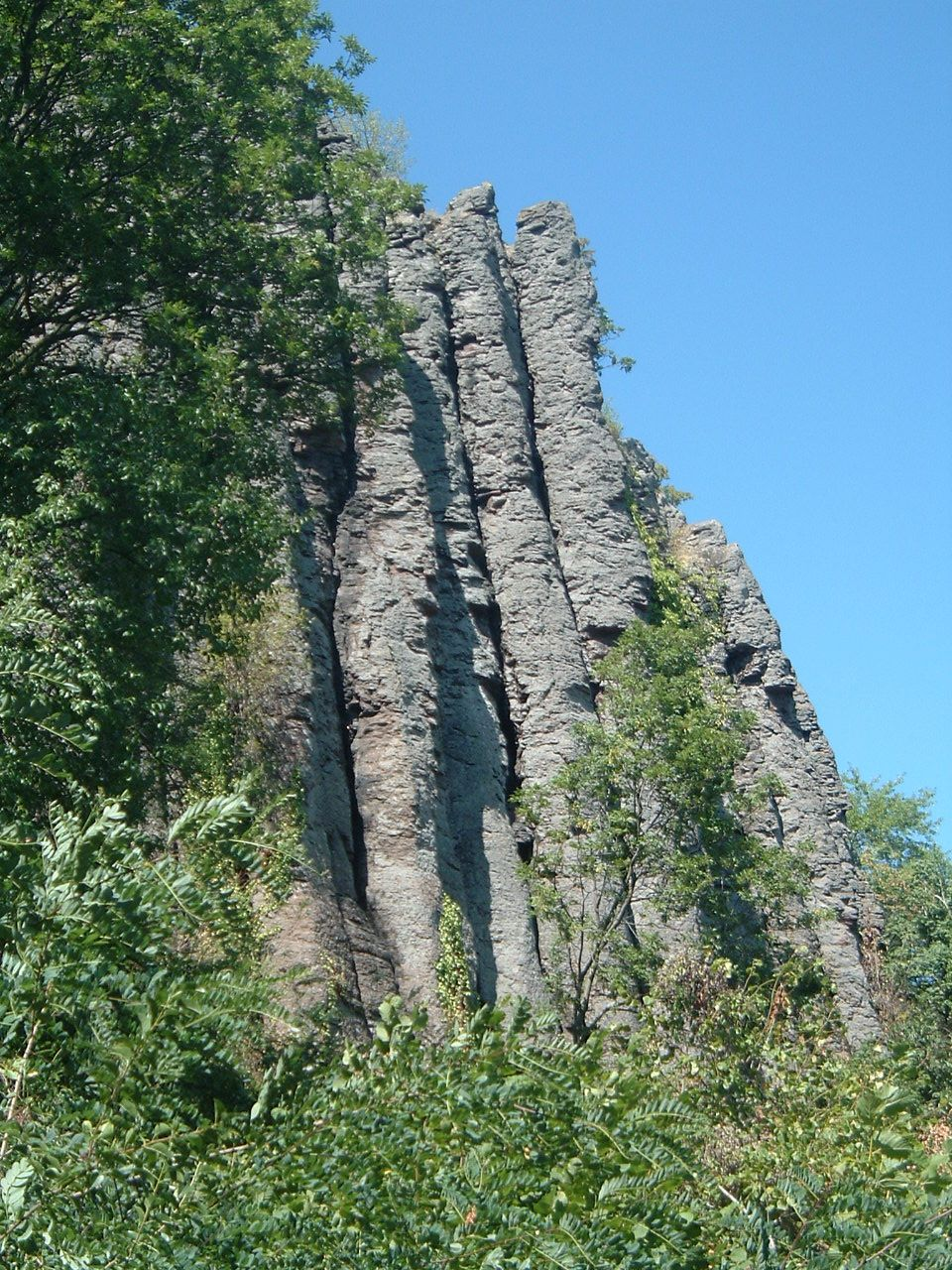 Basalt-organs in the Mount Szent György